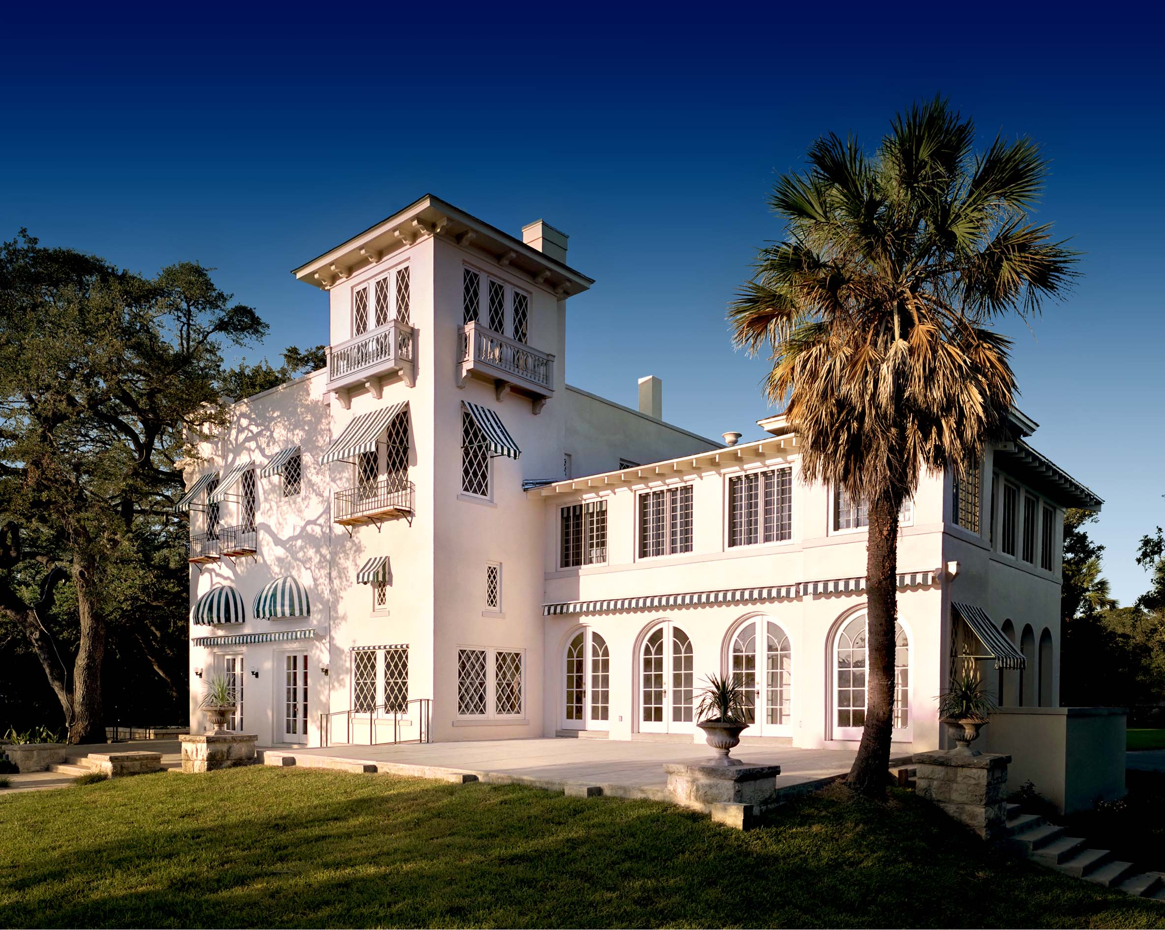 AMOA-Laguna Gloria Facade